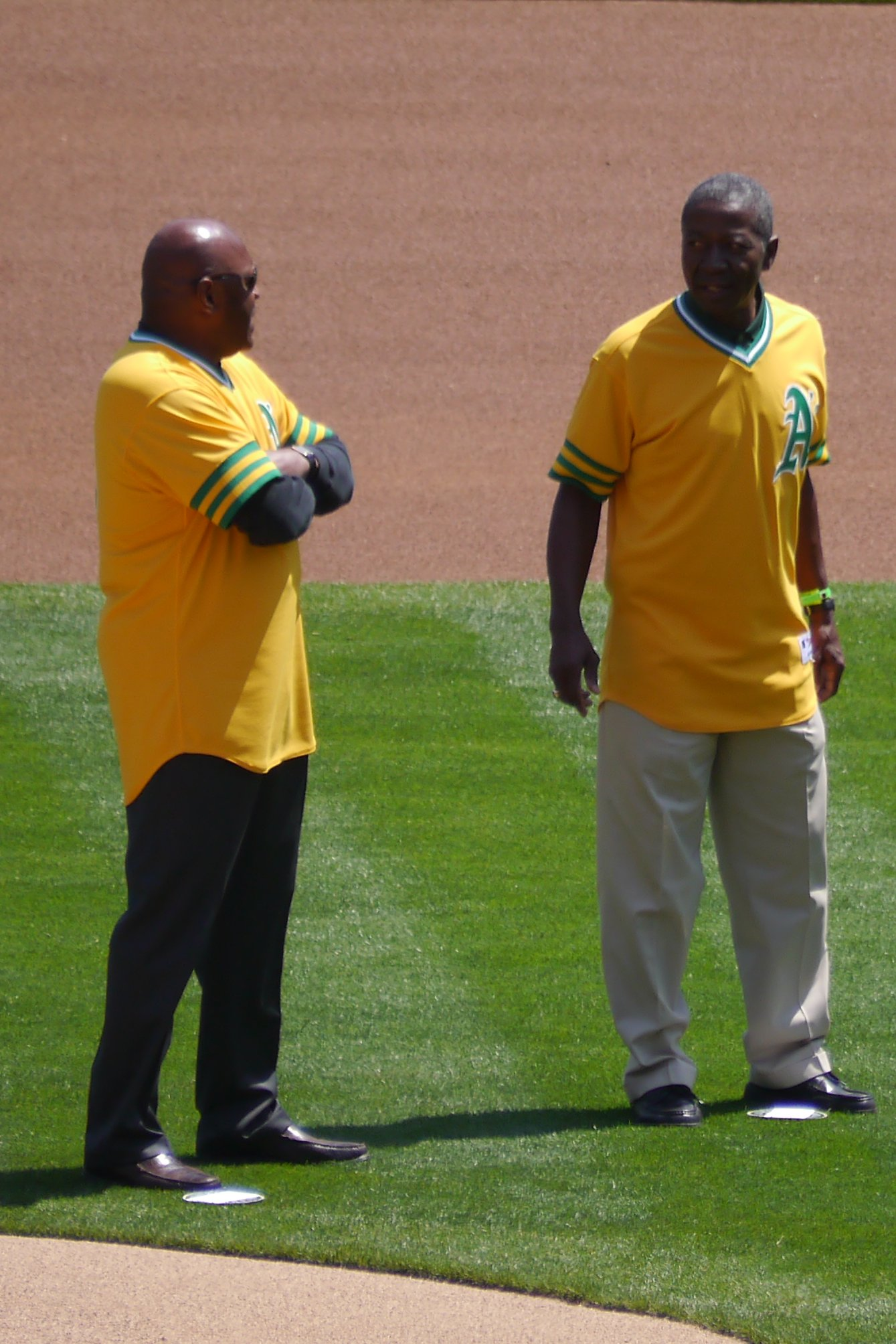 Vida Blue (left) and Blue Moon Odom (right) exchange pleasantries at the pitcher's mound during the 1973 WS reunion in Oakland.